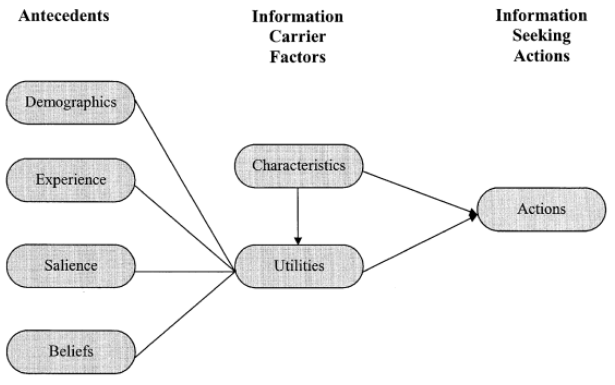 model of johnson's Comprehensive Model of Information Seeking (CMIS)